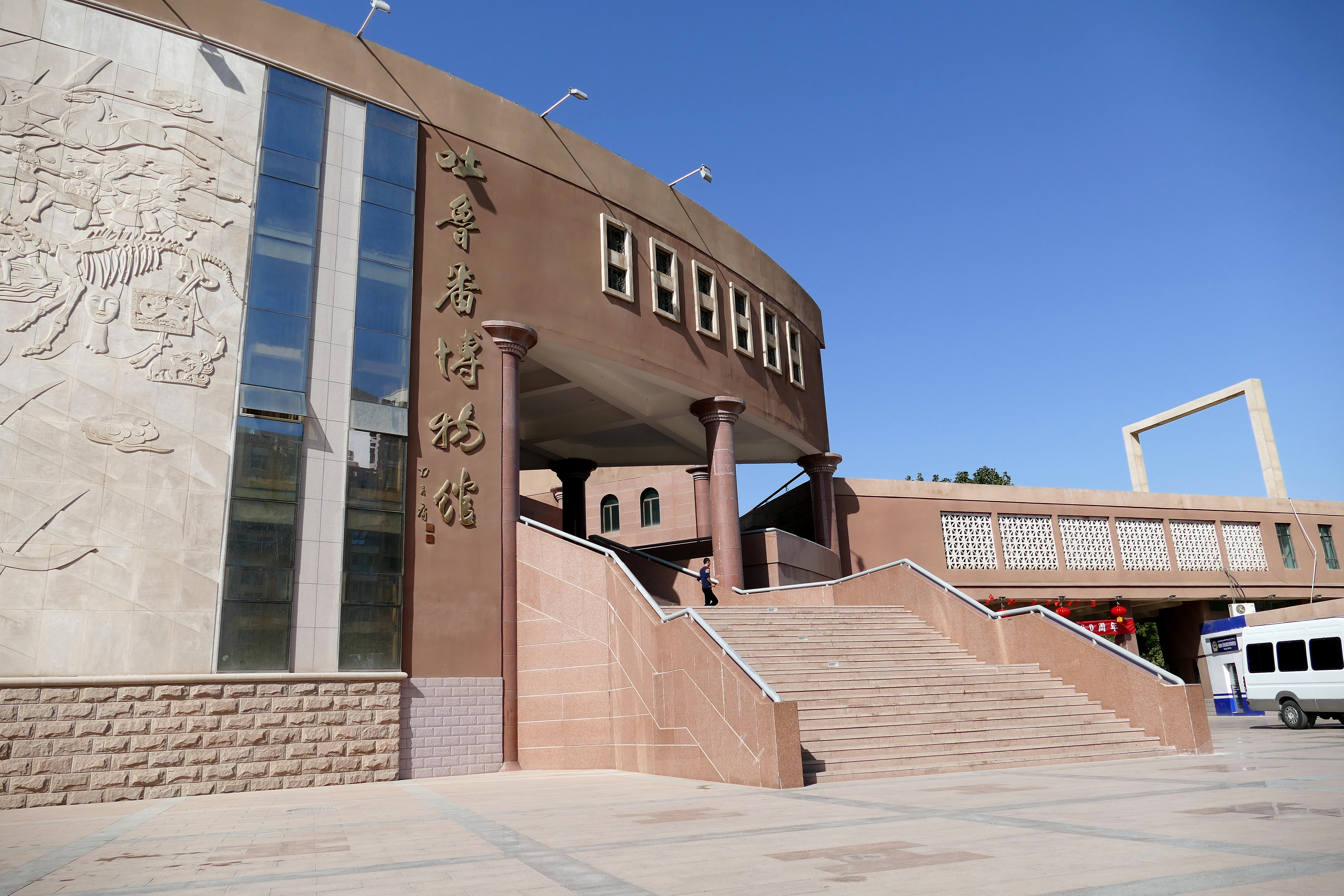 Turpan-Museum